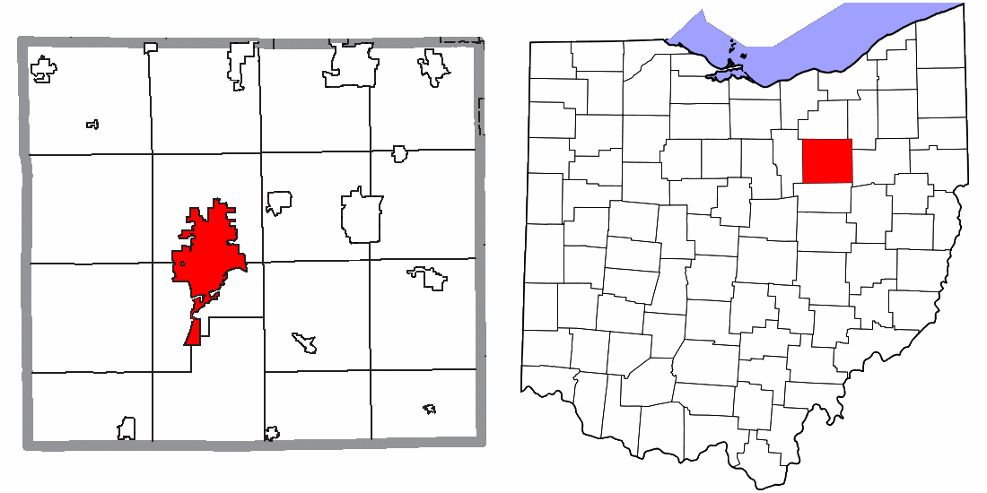 Map highlighting City of Wooster, Wayne County, Ohio, United States.